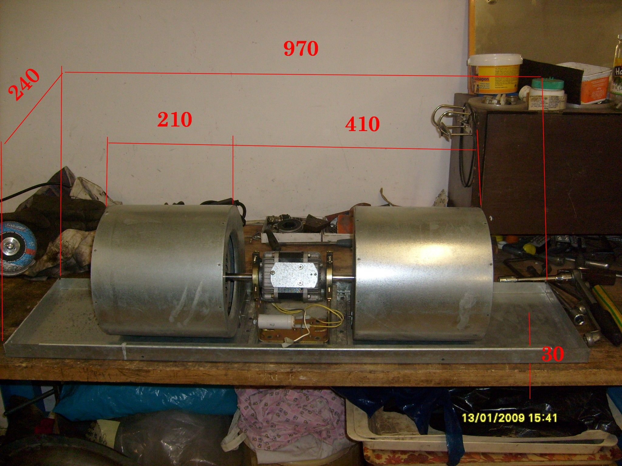 Double radial fan for fan-coil heating Česky: Zdvojený radiální ventilátor pro fan-coil